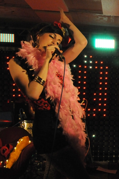 Czech band Toxique on Febiofest Music Festival 2009